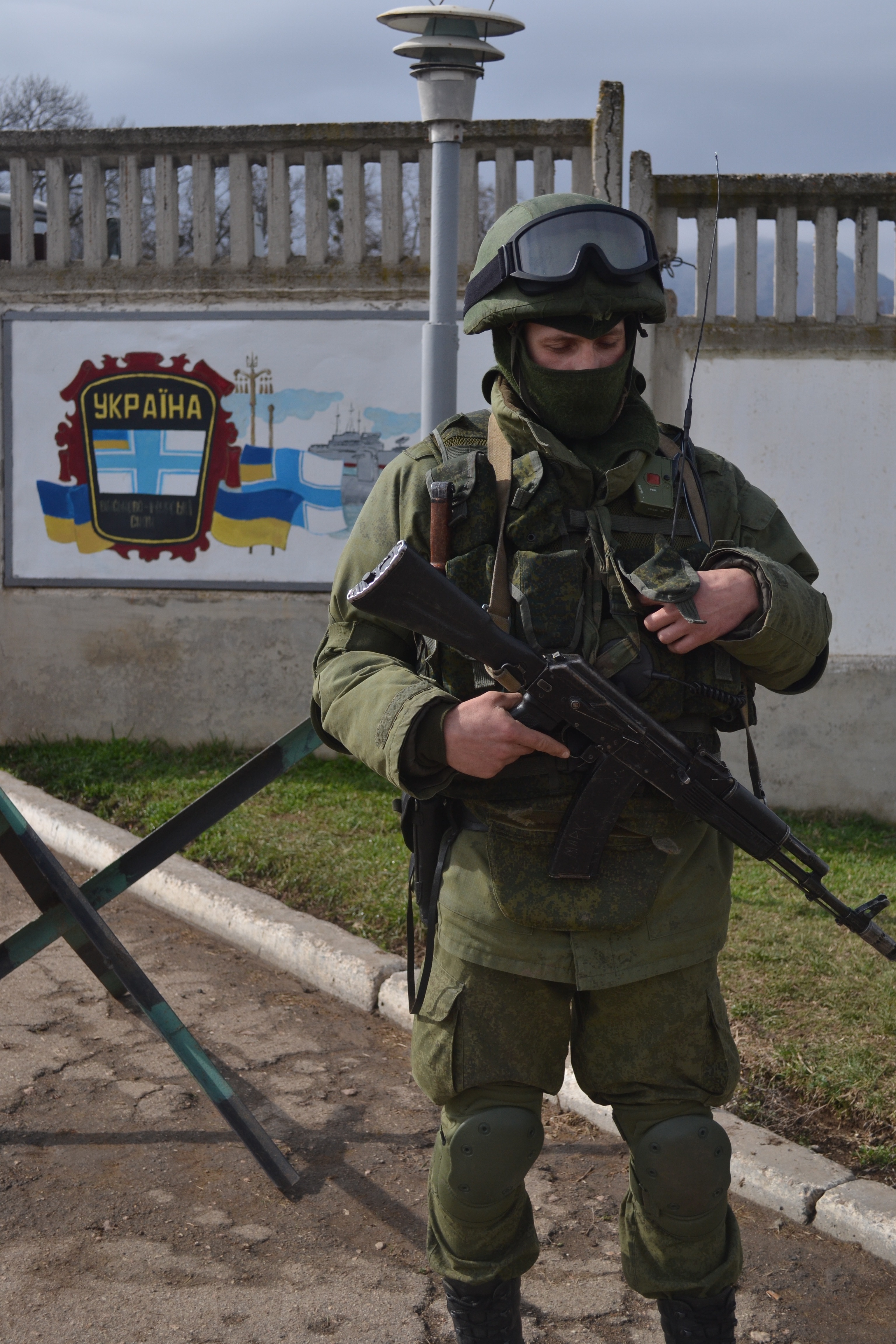 Military base at Perevalne during the 2014 Crimean crisis.